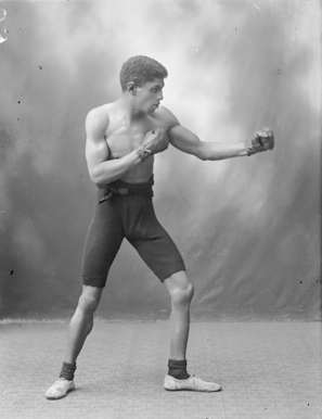 Studio portrait of Young Pluto, Deese Studios, 77-79 Barrack Street, Perth